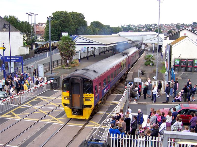 158762 departs Paignton railway station, August 2007.